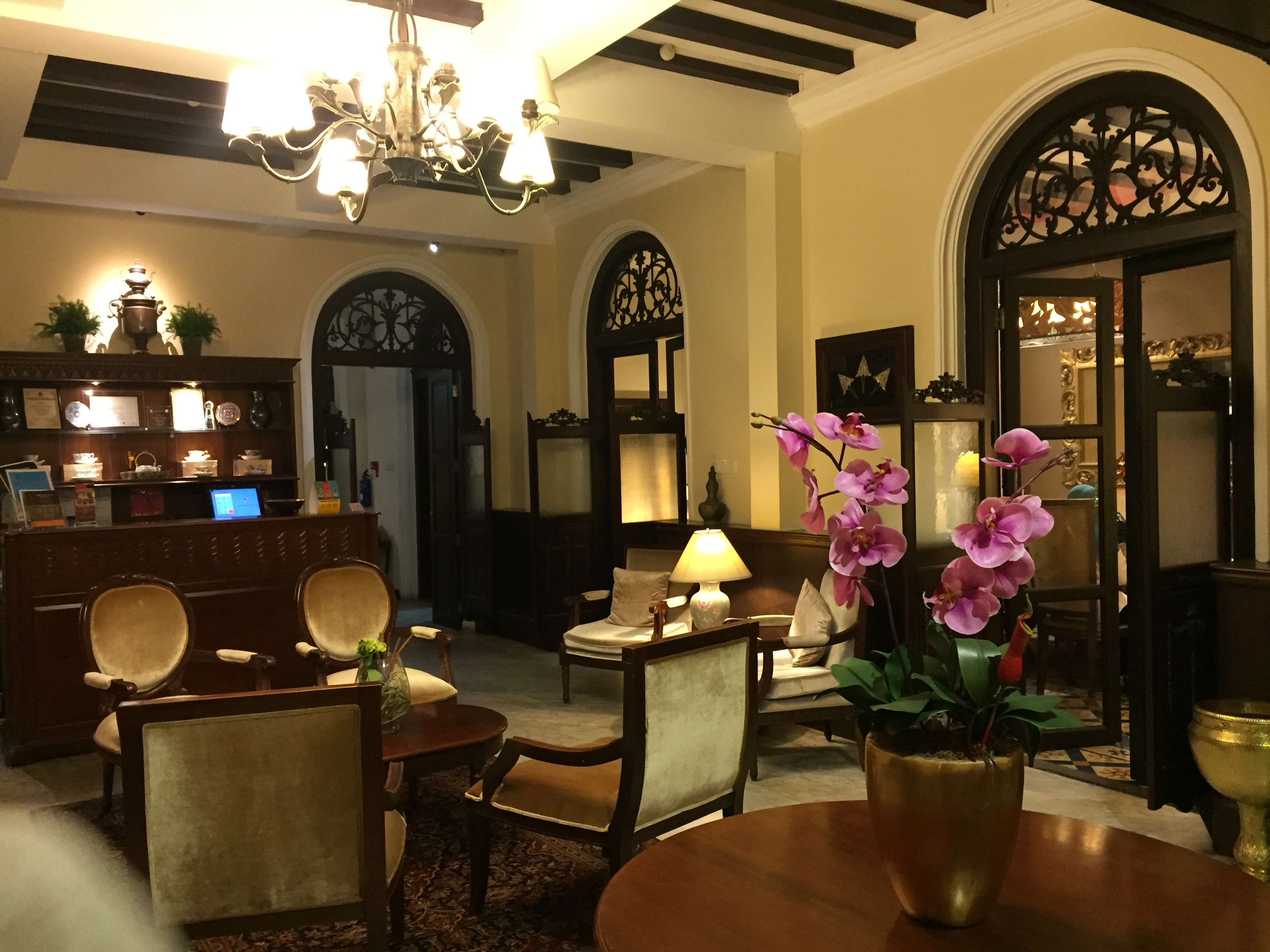 Mamanda restaurant in Gedung Kuning, Singapore.